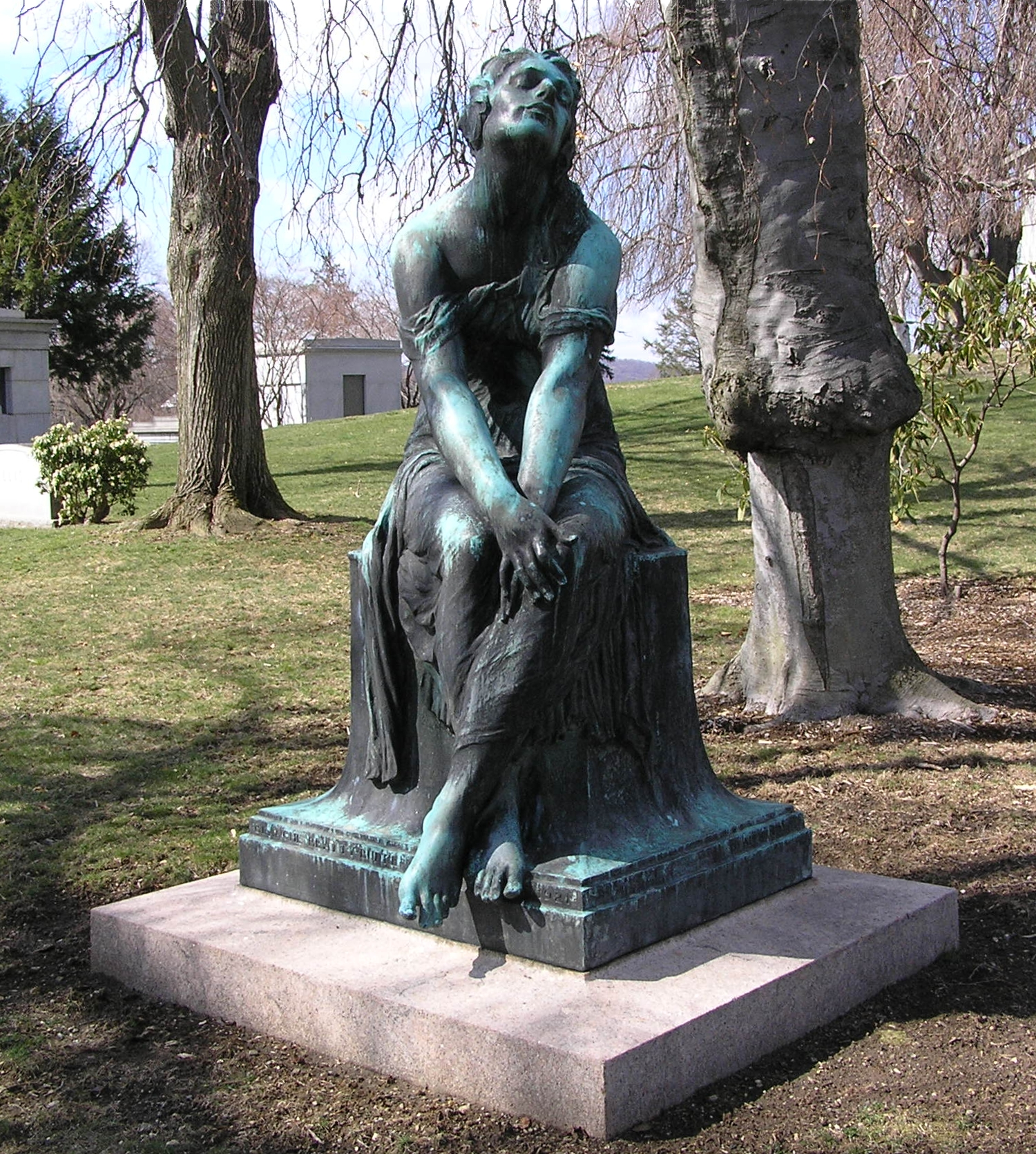 I took this photograph of a tall bronze statue of a woman at Billie Burke's grave on April 4, 2006, in Kensico Cemetery at Valhalla, New York. Billie Burke and her famous showman husband, Florenz Ziegfeld, are buried directly in front of this memorial statue, which is dedicated to Billie's mother, Blanche Beatty Burke. -- GNU Free Documentation License